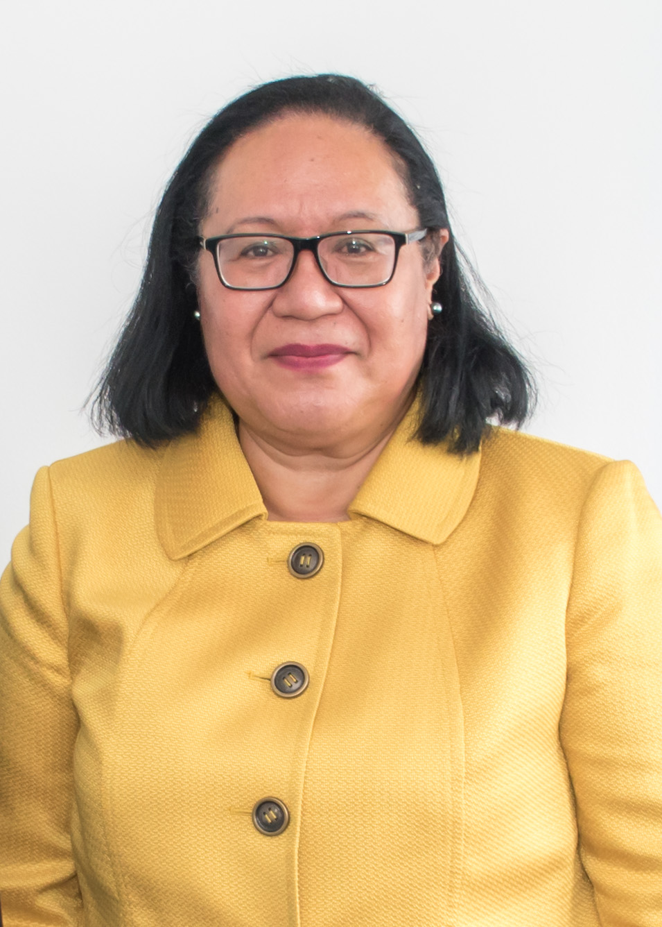 Mr. Houlin Zhao, ITU Secretary-General with Ms. Fekitamoeloa Katoa 'Utoikamanu, Under-Secretary General and High Representative for the Least Developed Countries. ITU/D.Woldu